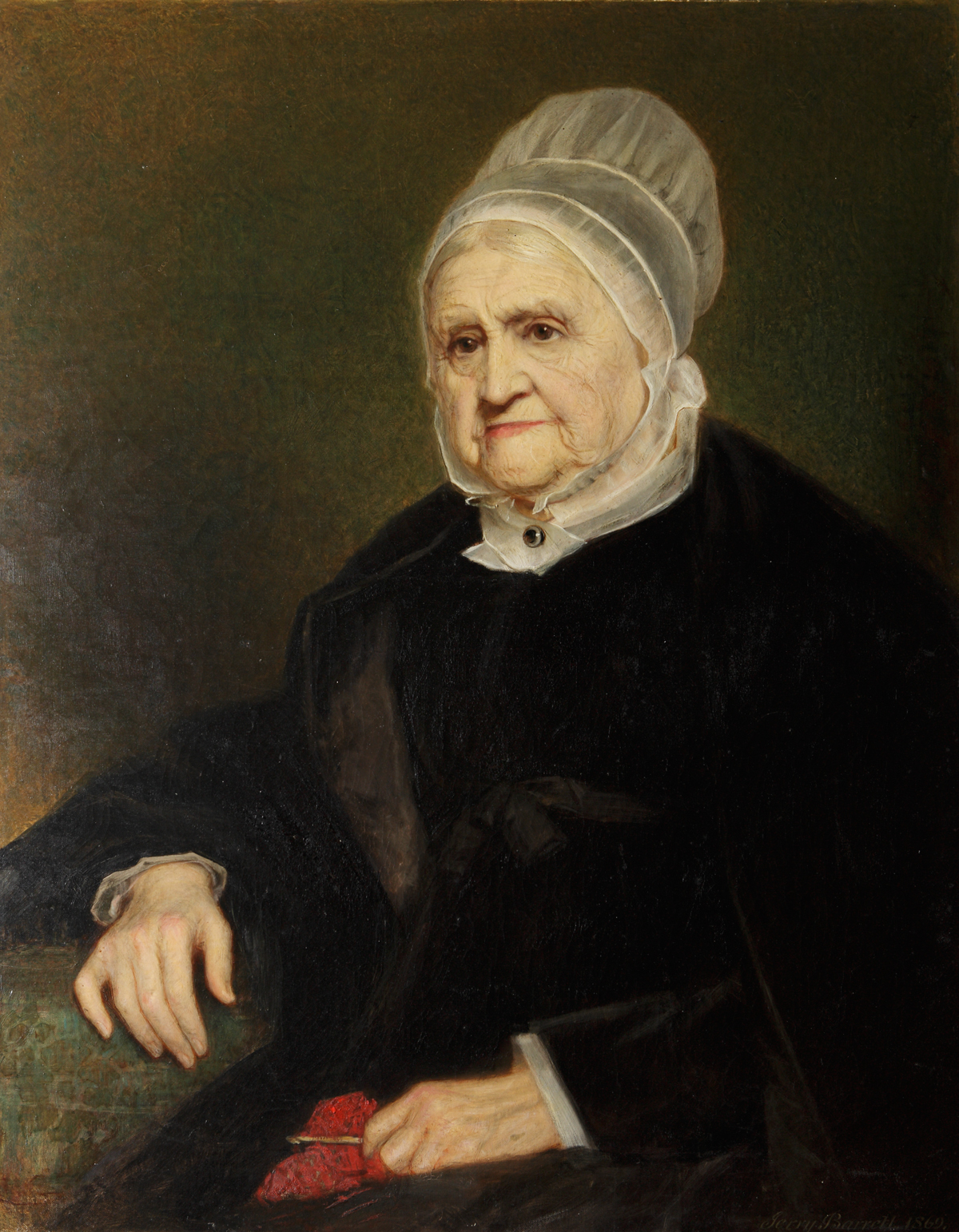 Portrait of Ann Fell (1783-1871), wife of William Miller Christy.